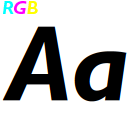 Demonstration of Subpixel rendering.